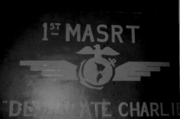 Sign from 1st MASRT; Devastate Charlie Team, Korea